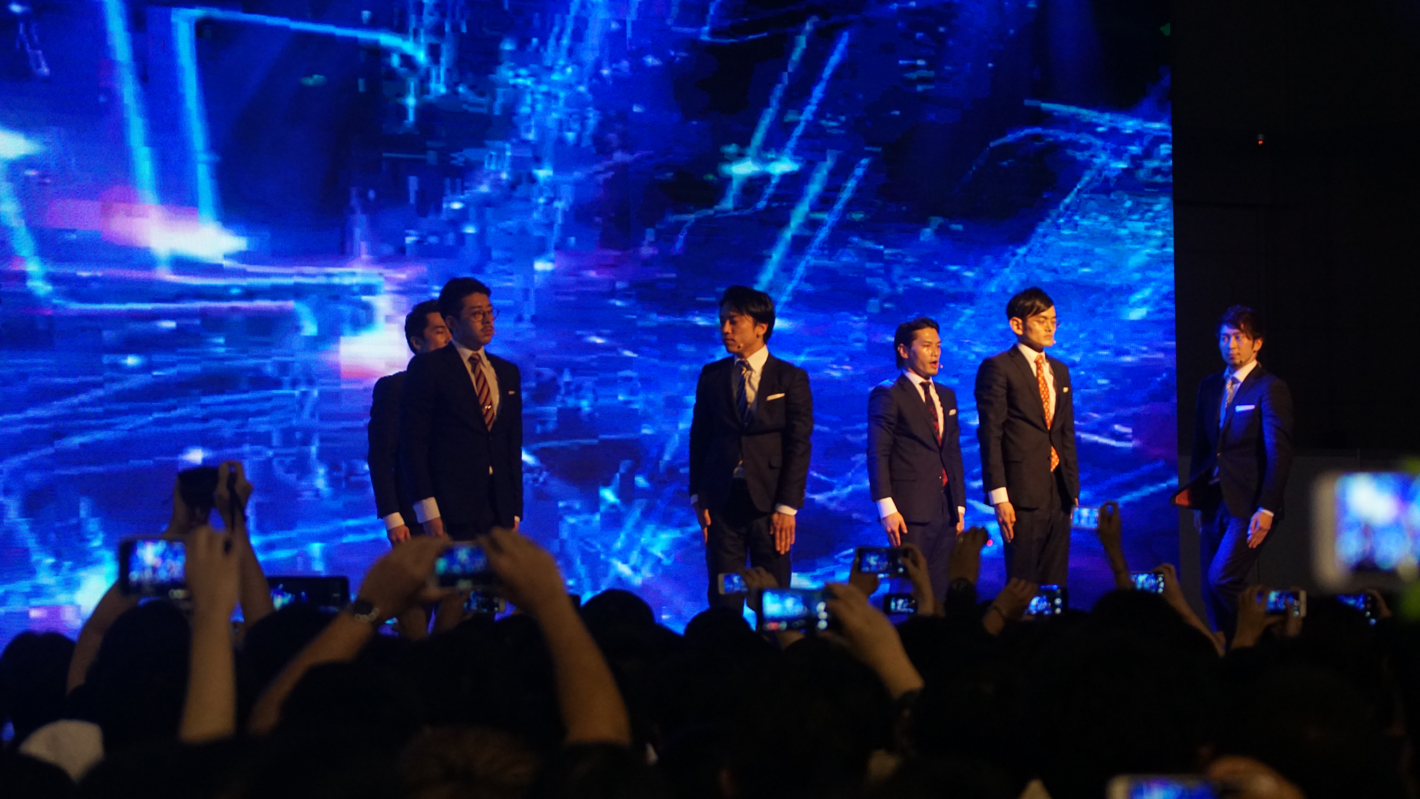 World Order during a performance in Bangkok in 2016